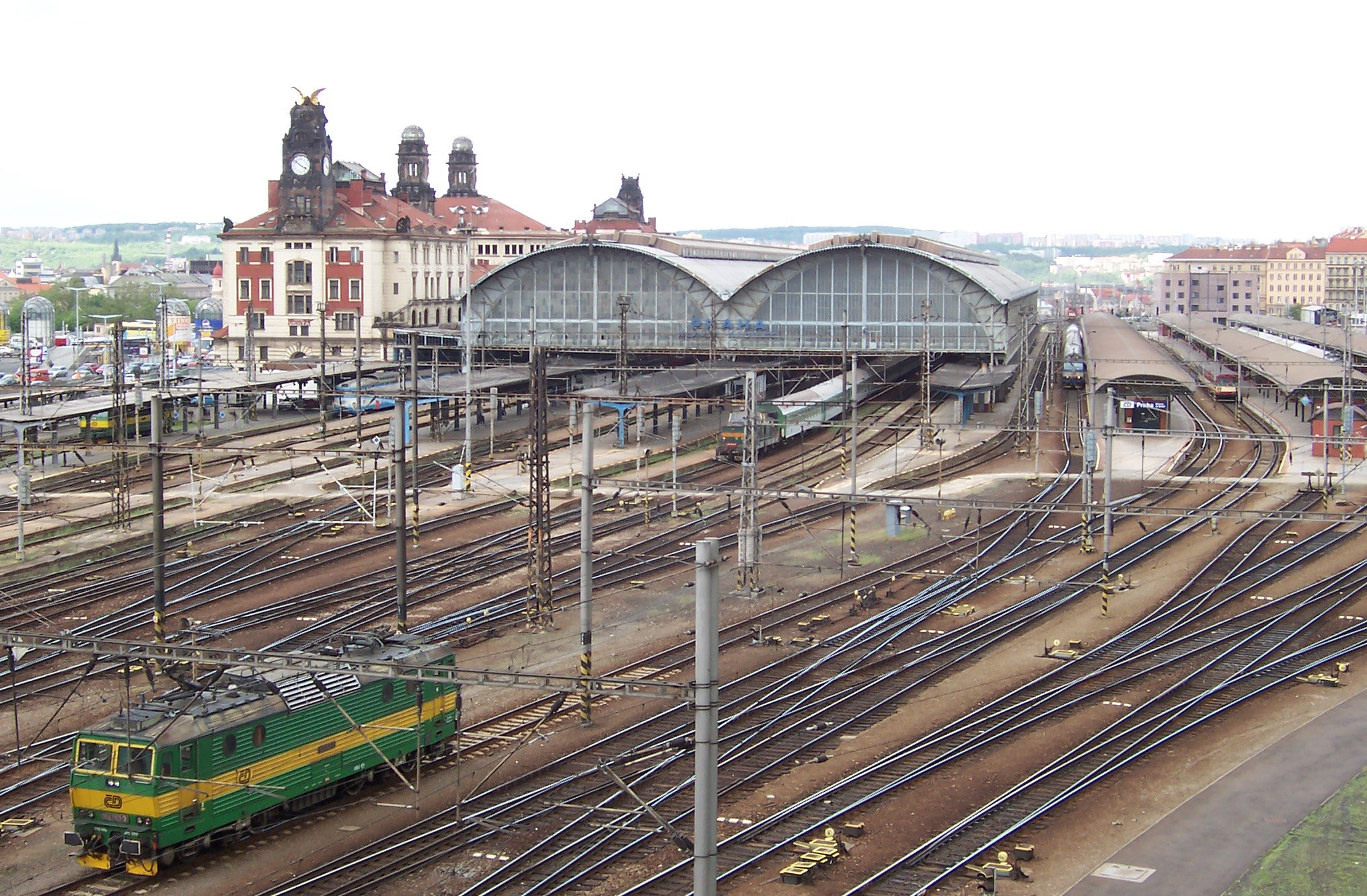 Prague's Main Train Station, view from the south.